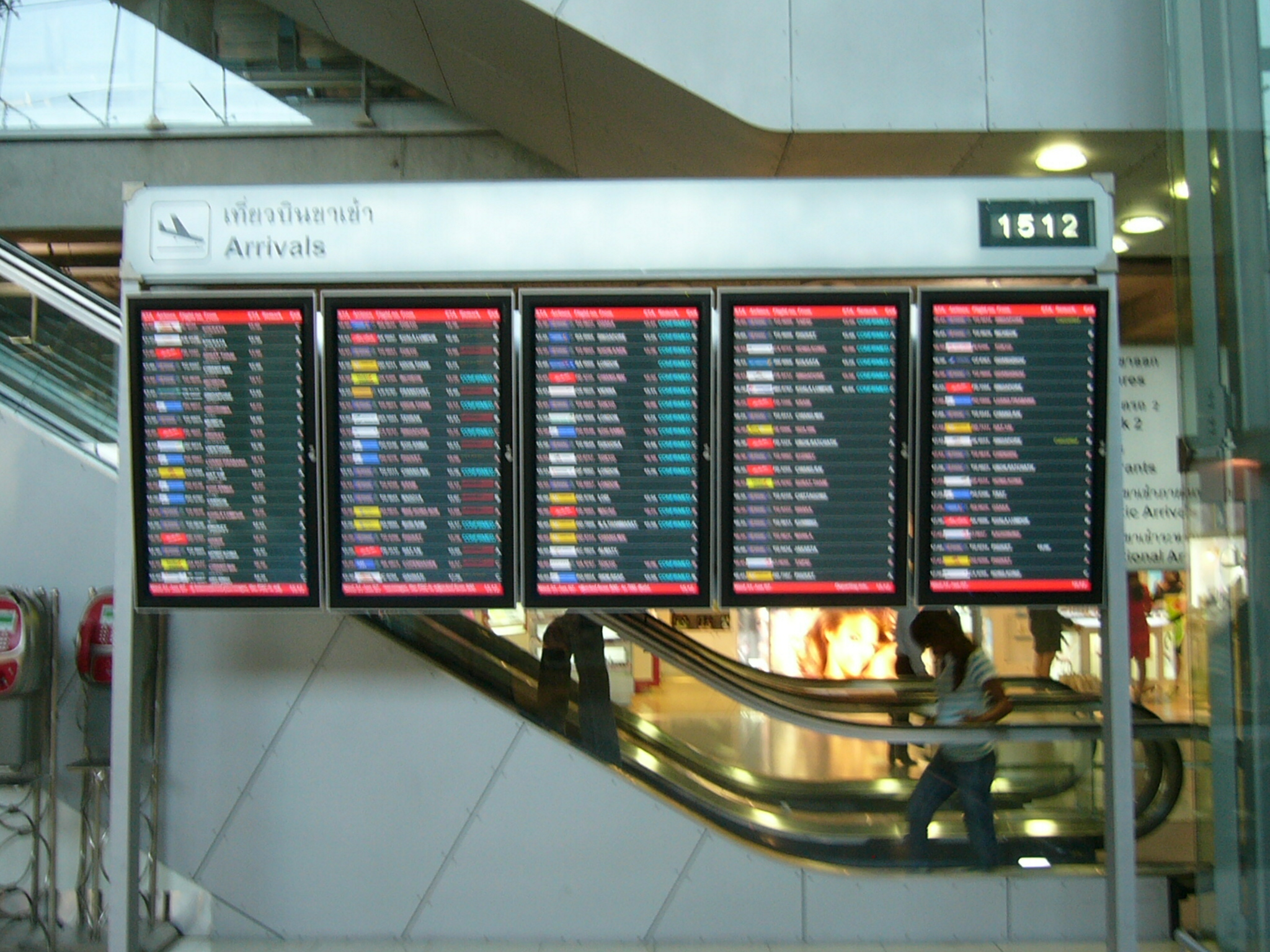 Electronic displays showing arrivals of flights at Suvarnabhumi International Airport near Bangkok, Thailand.